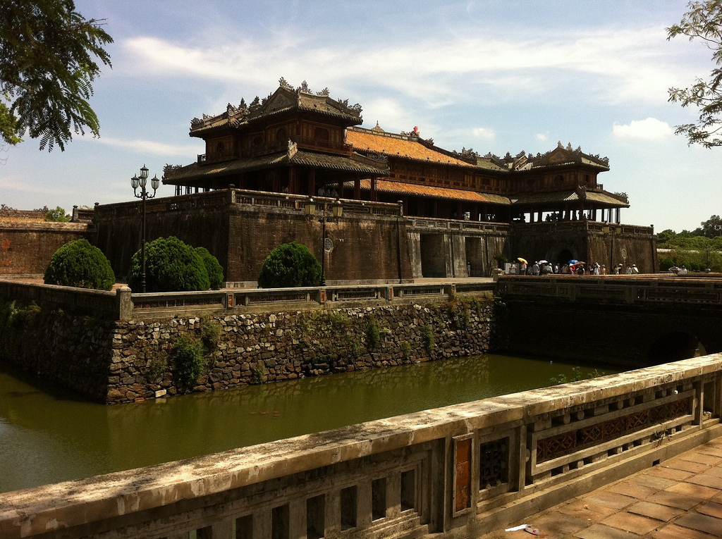 The main “Noon Gate”, Imperial palace, Hue.